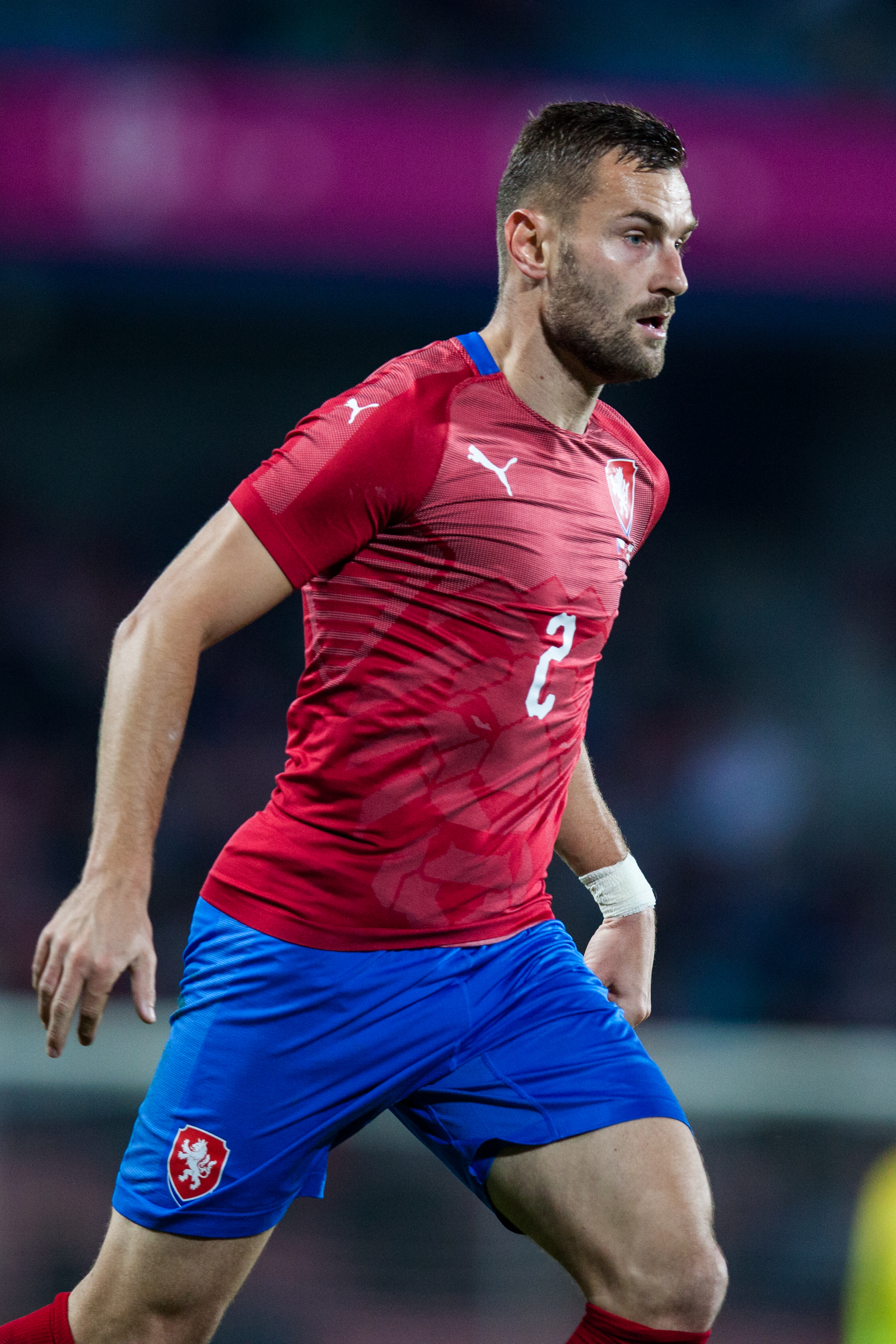 Radim Řezník in an international friendly match between Czech Republic and Northern Ireland (2:3), Stadion Letná (Prague) 2019-10-14 The making of this work was supported by Wikimedia Austria. For other files made with the support of Wikimedia Austria, please see the category Supported by Wikimedia Österreich. Personality rights warningAlthough this work is freely licensed or in the public domain, the person(s) shown may have rights that legally restrict certain re-uses unless those depicted consent to such uses. In these cases, a model release or other evidence of consent could protect you from infringement claims.